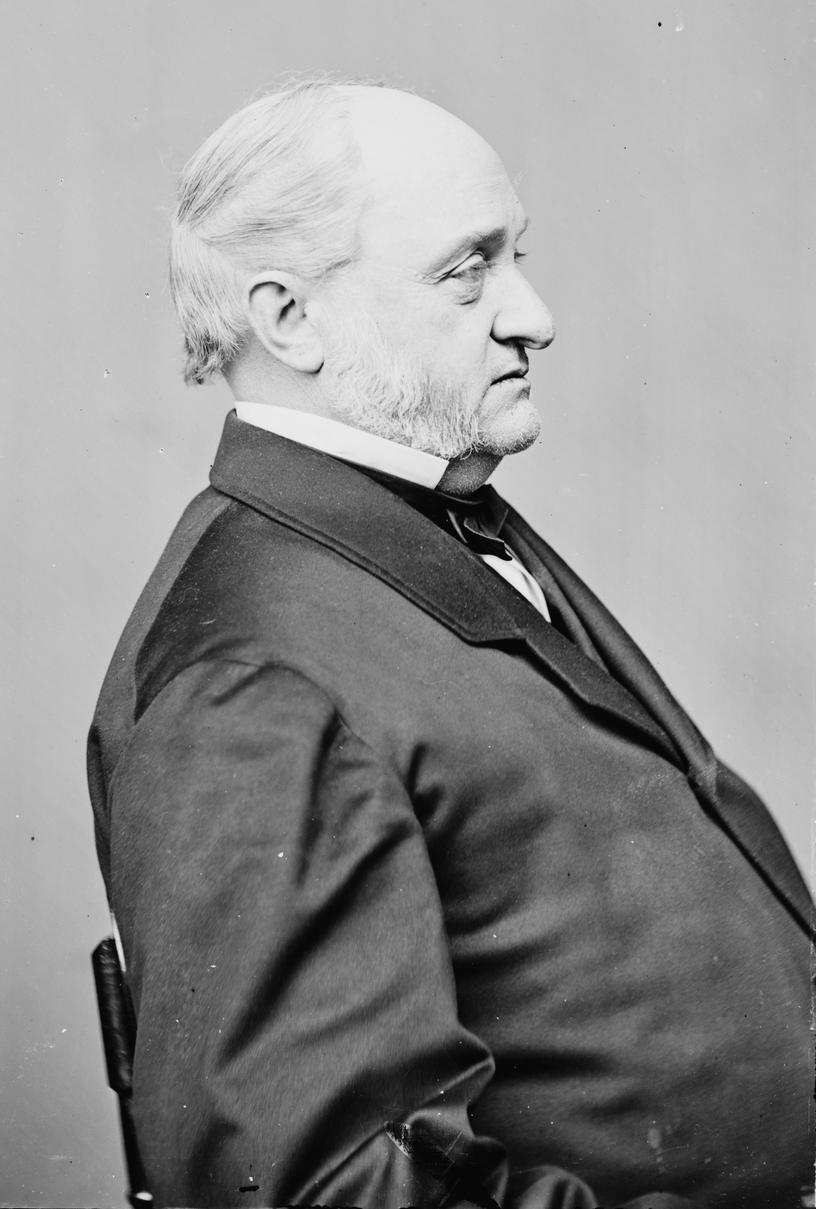 Peter G. Van Winkle. Library of Congress description: "Hon. Peter Godwin Van Winkle of W. Va"